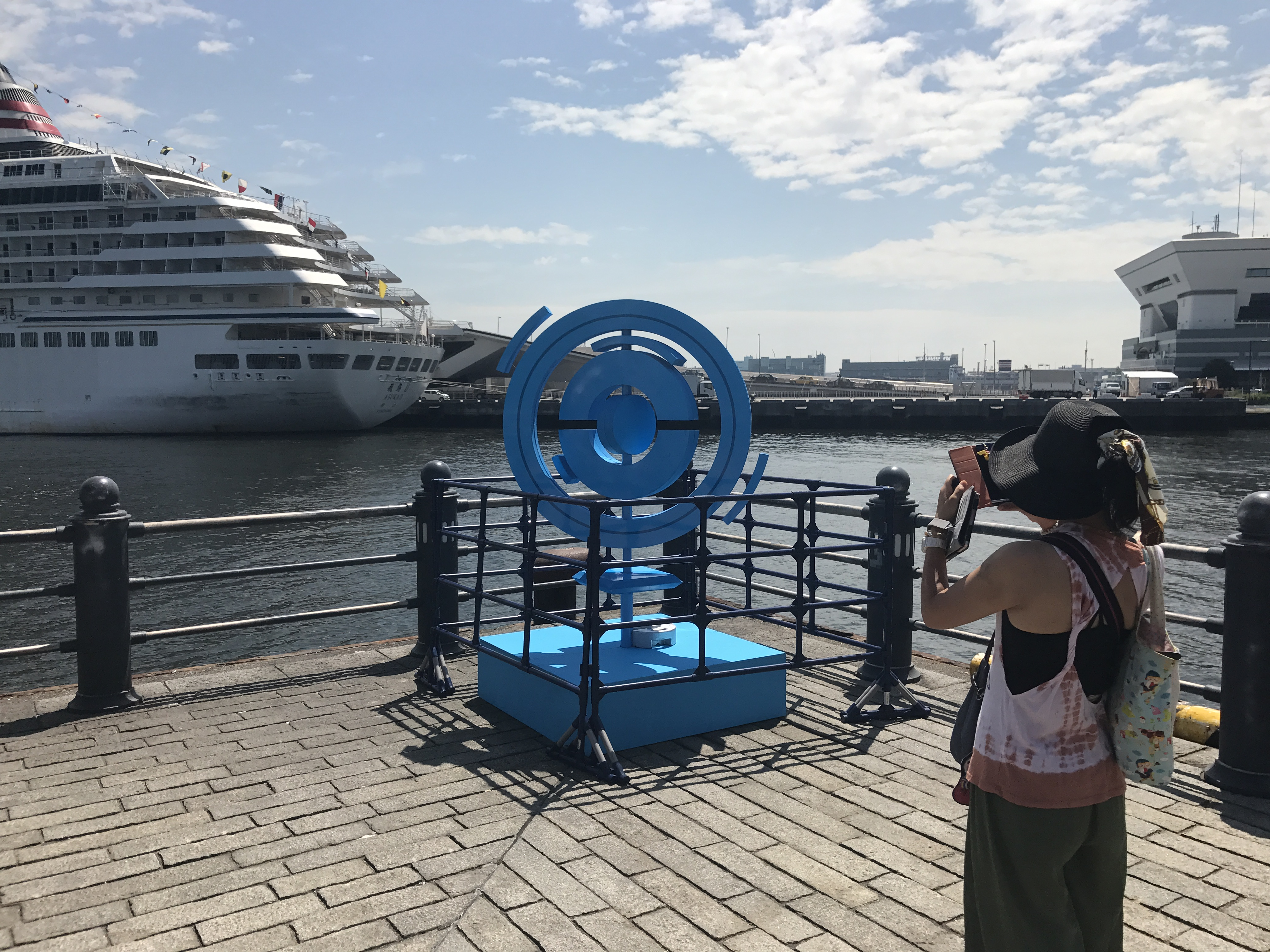 Pokémon GO PokéStop appeared in real world